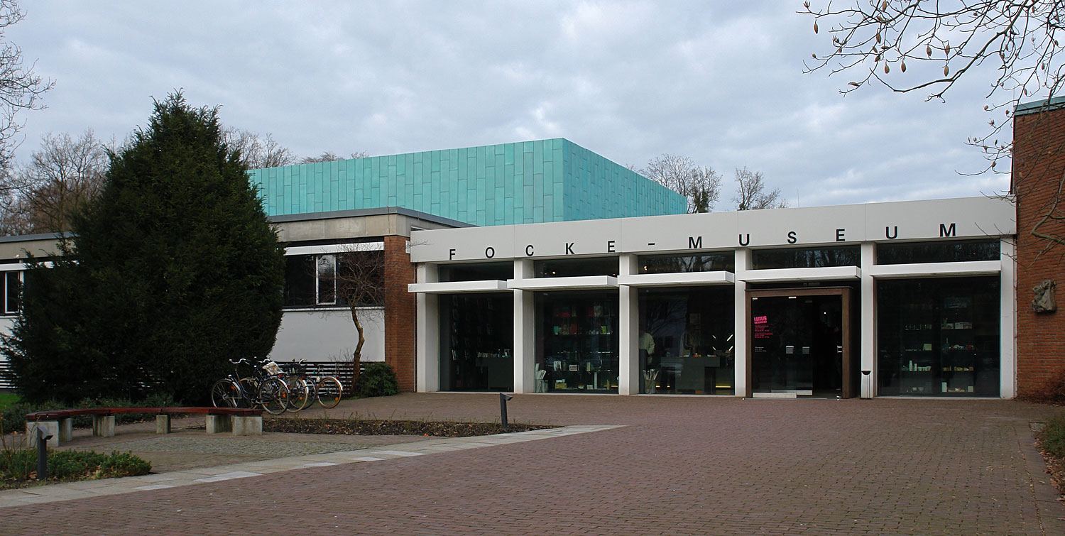 Focke-Museum Native nameFocke-MuseumLocationBremen, GermanyCoordinates53° 05′ 33″ N, 8° 51′ 51″ E Established1918/1959Website control : Q1434990 VIAF: 124811512 ISNI: 0000 0001 2353 0539 LCCN: n83199524 GND: 39040-9 SUDOC: 079226906 WorldCat